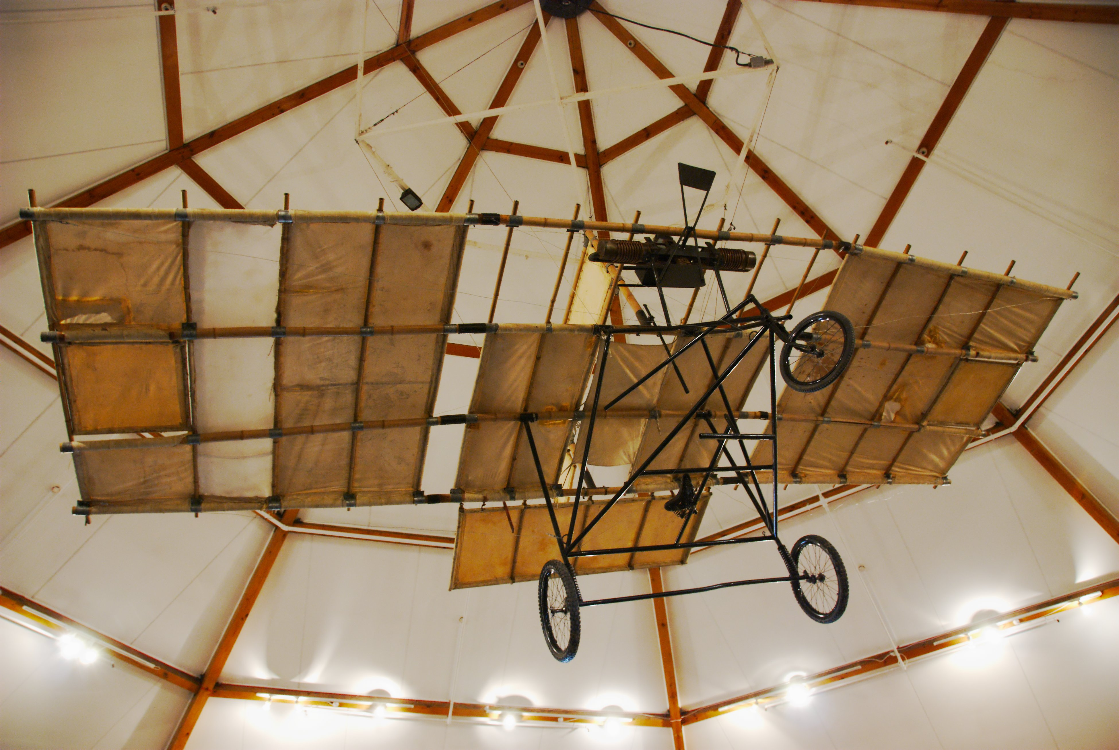 A replica of Richard Pearse's aeroplane on display at the South Canterbury Museum in Timaru